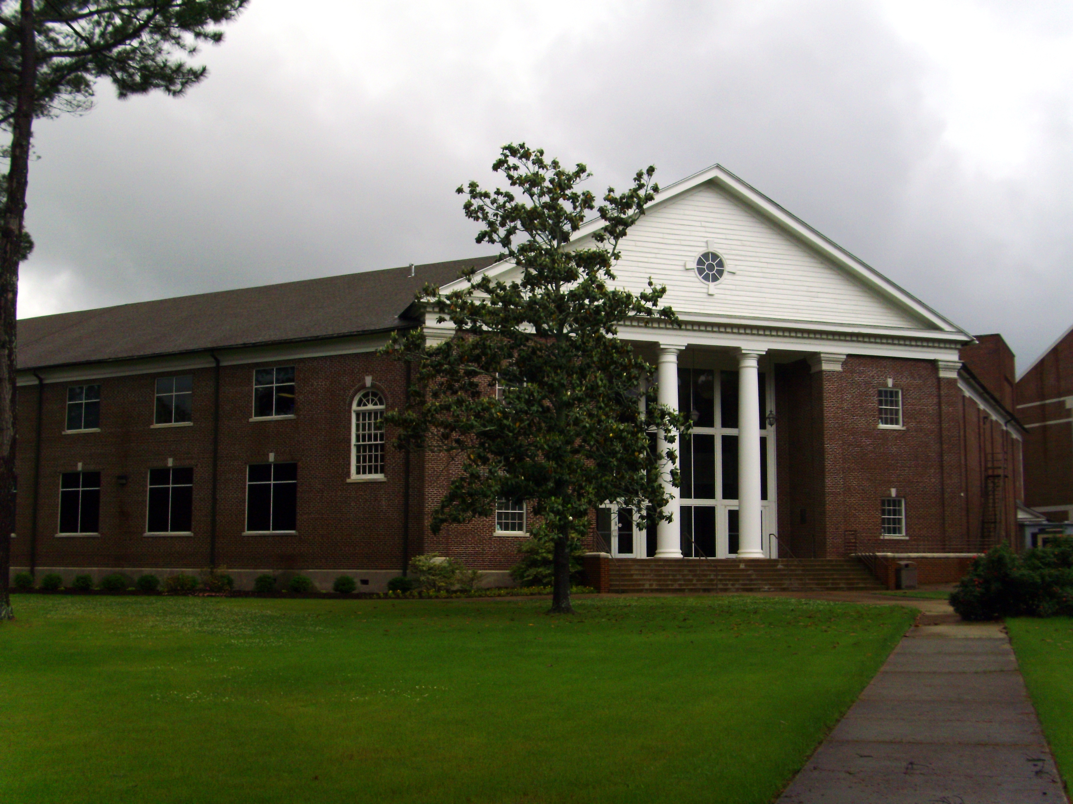 Campus of Henderson State University in Arkadelphia, AR